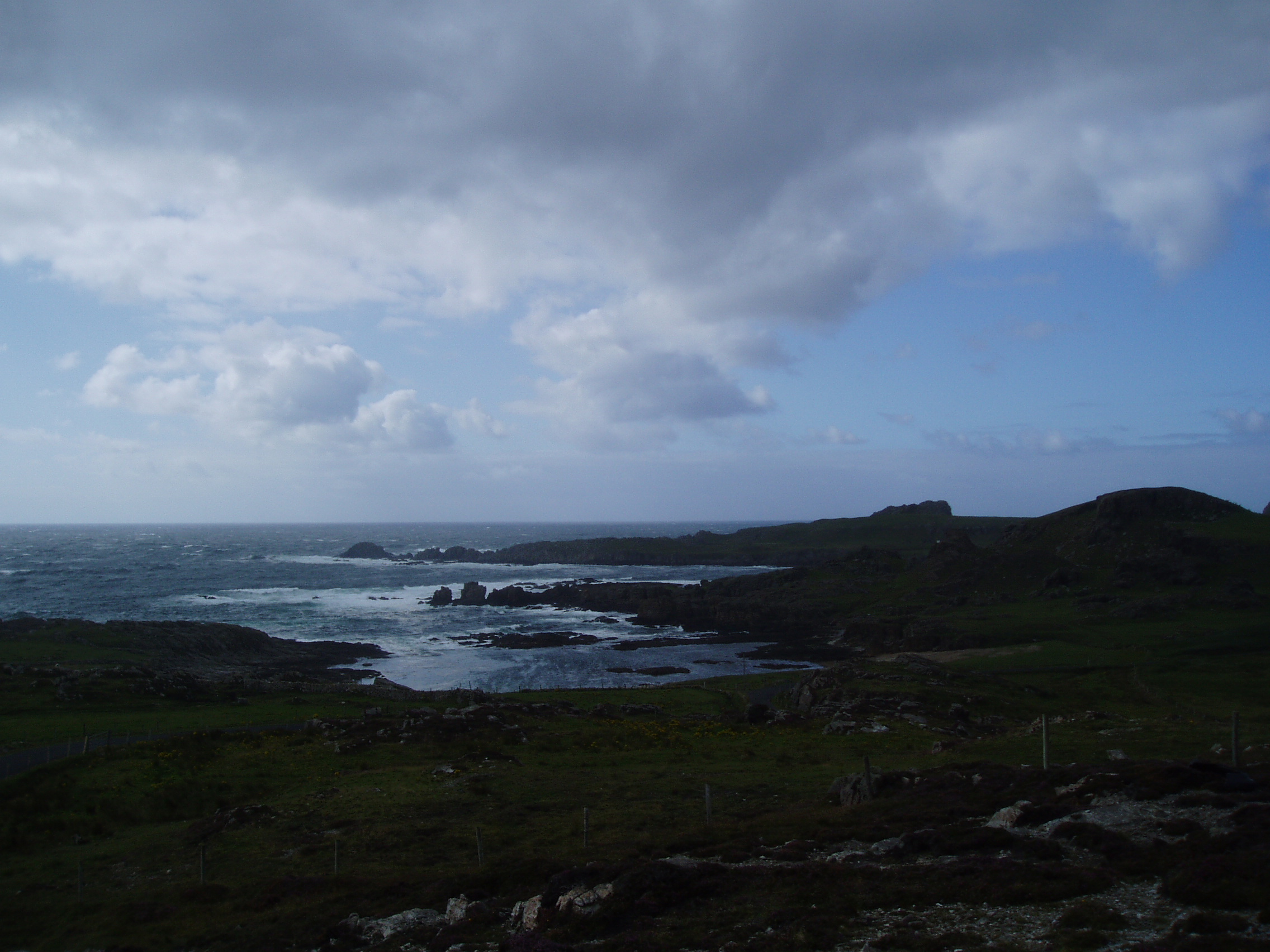 Malin Head, County Donegal, Ireland